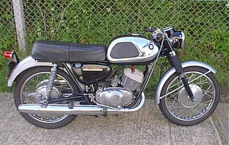 My Suzuki t20 motorcycle, photo taken by myself